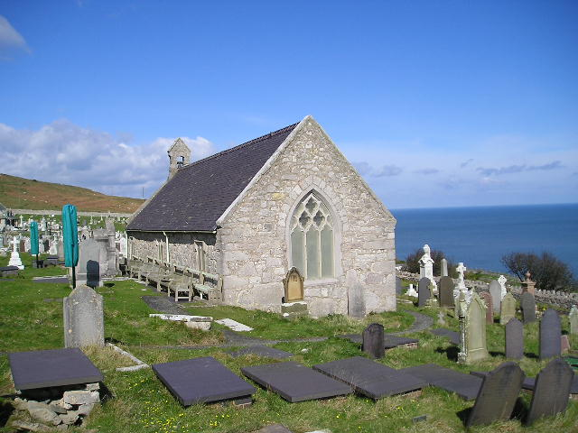 Photo by me Noel Walley.